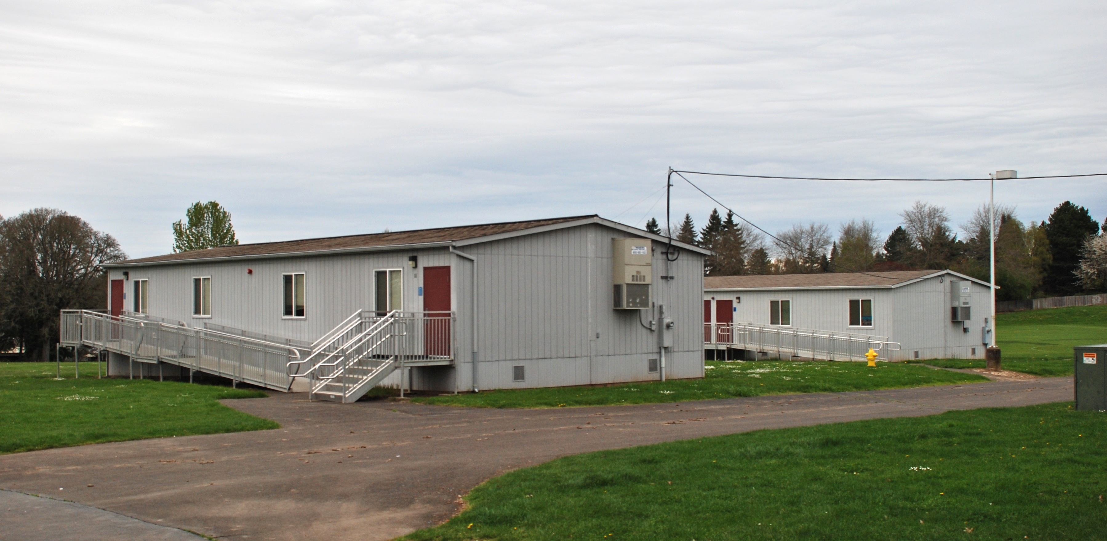 Portable classroom buildings at Rock Creek Elementary School (Beaverton School District, but this location is not in Beaverton), in the unincorporated Rock Creek area of Washington County, Oregon.